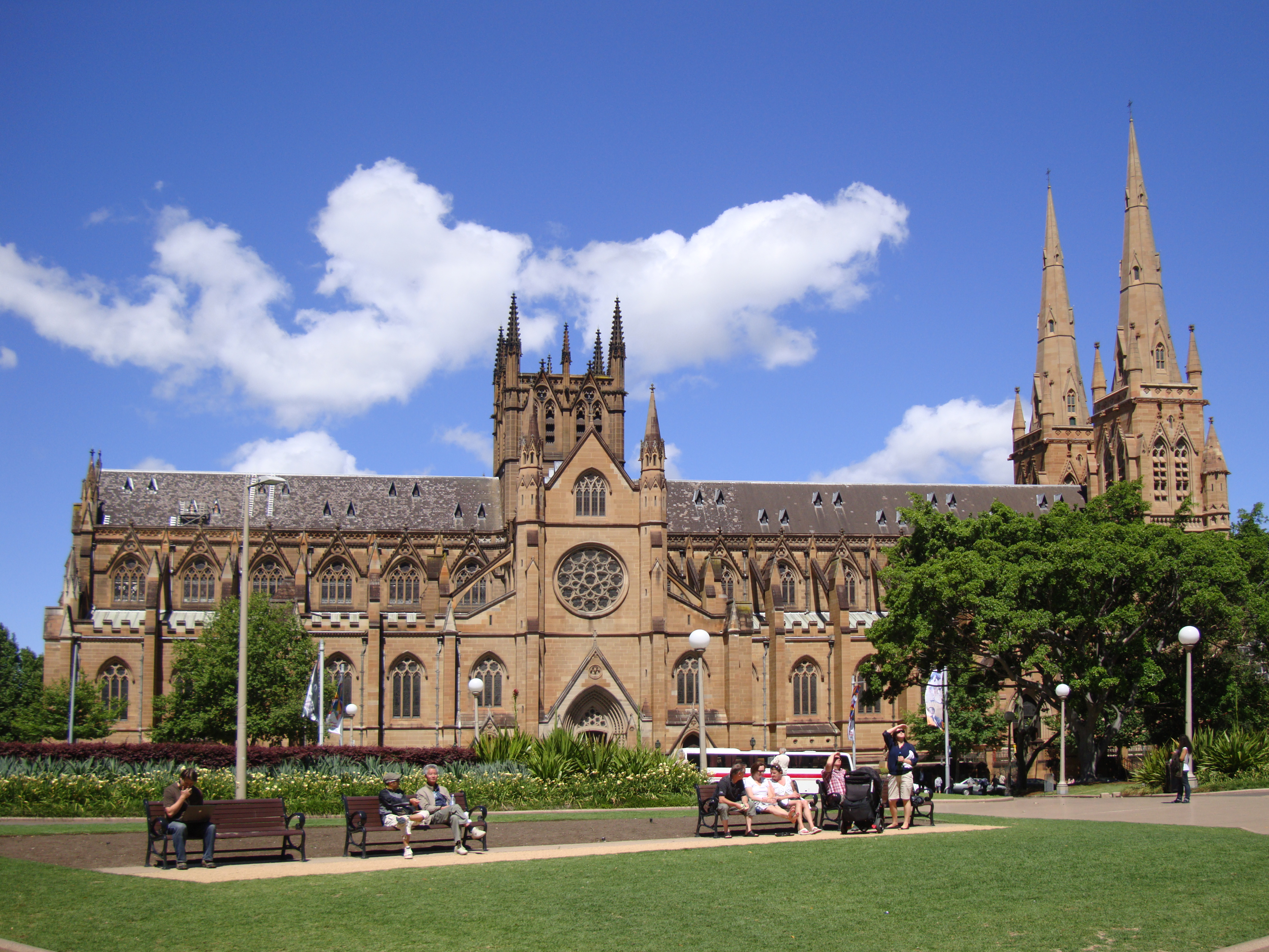 Photograph of St Mary's Cathedral, Sydney, Australia